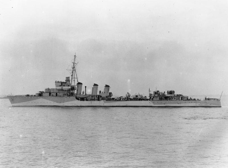 The Polish Navy during the Second World War The Polish Navy destroyer ORP Burza (Storm) stationary.